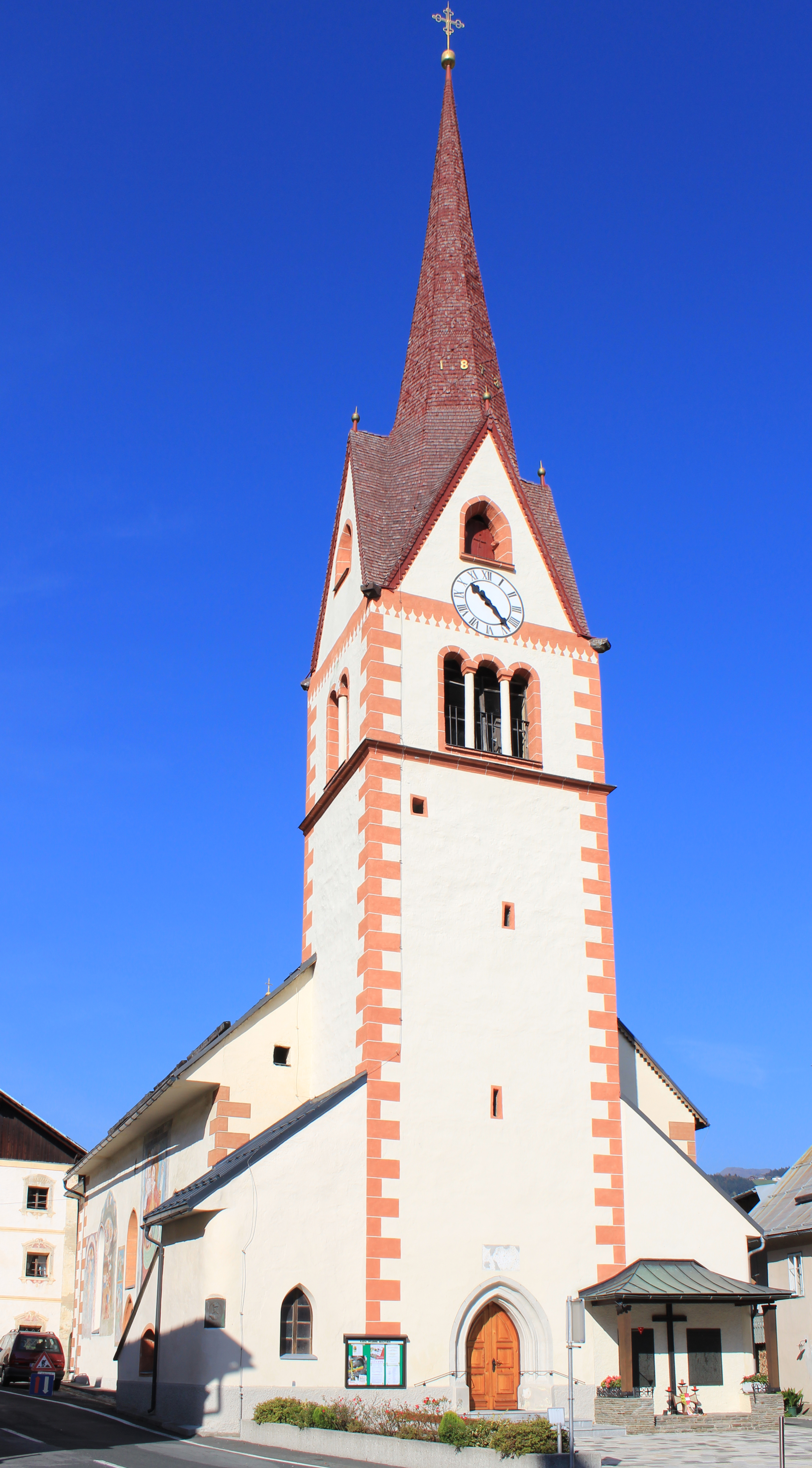 Church of Mauthen in the community of Kötschach-Mauthen